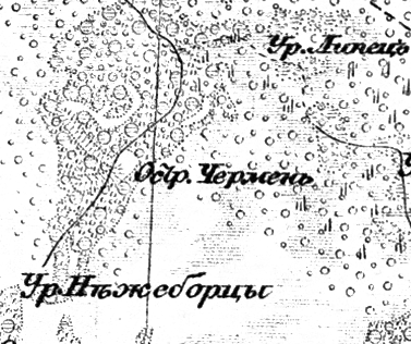 Chermen on the map "Военно-топографическая карта Российской Империи" (known as "Schubert's map"), XX 5, 1866-1887 (issued in 1913).